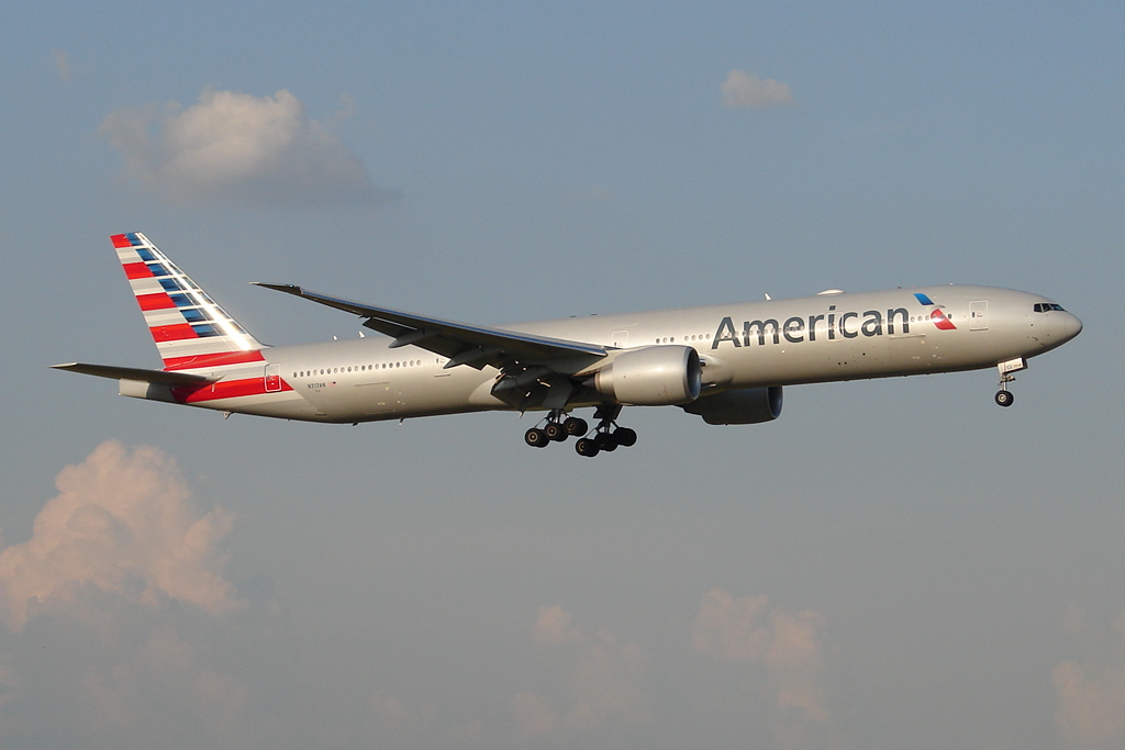 The New Flagship Of American Airlines @ DFW